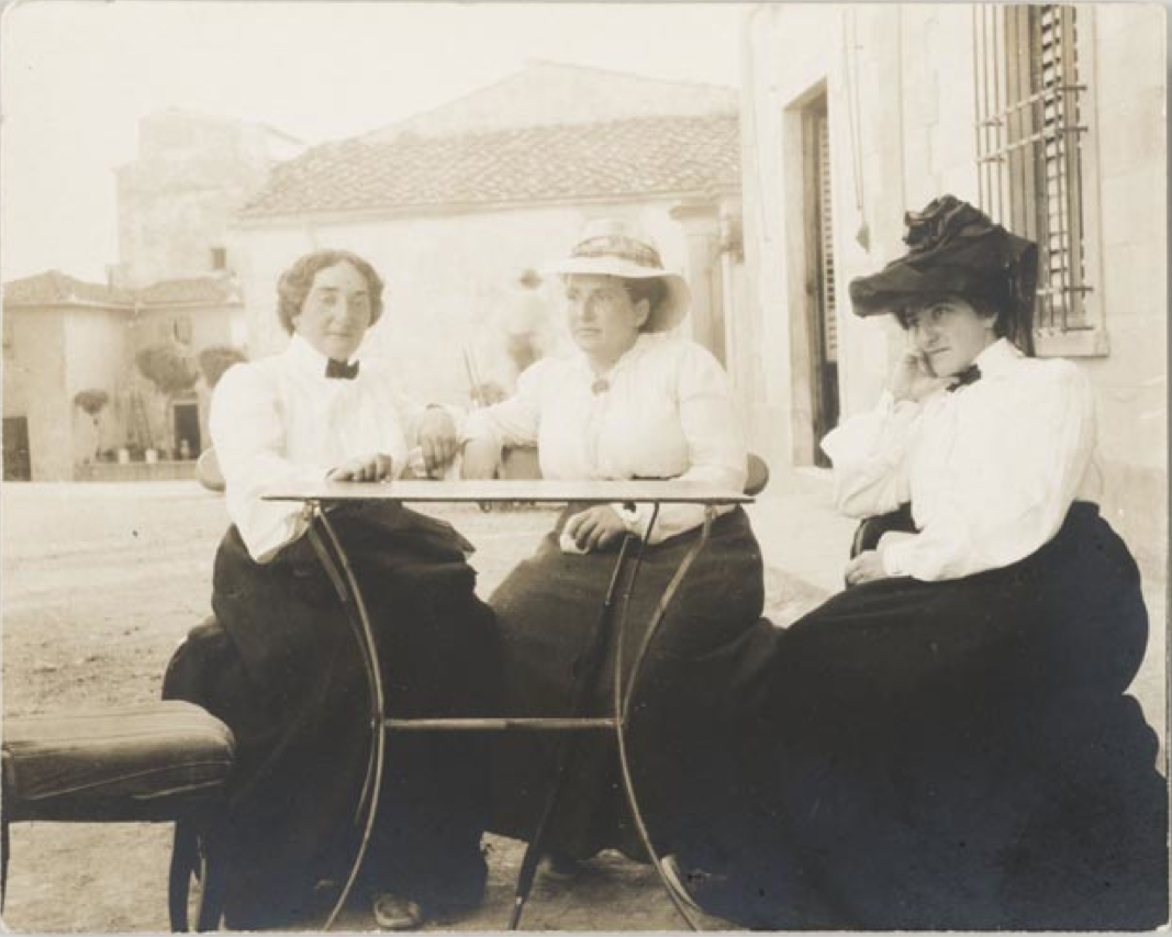 Claribel Cone, Gertrude Stein, Etta Cone 1903 in Settignano bei Fiesole im Juni 1903.